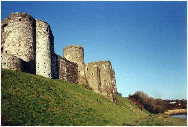 Kidwelly Castle